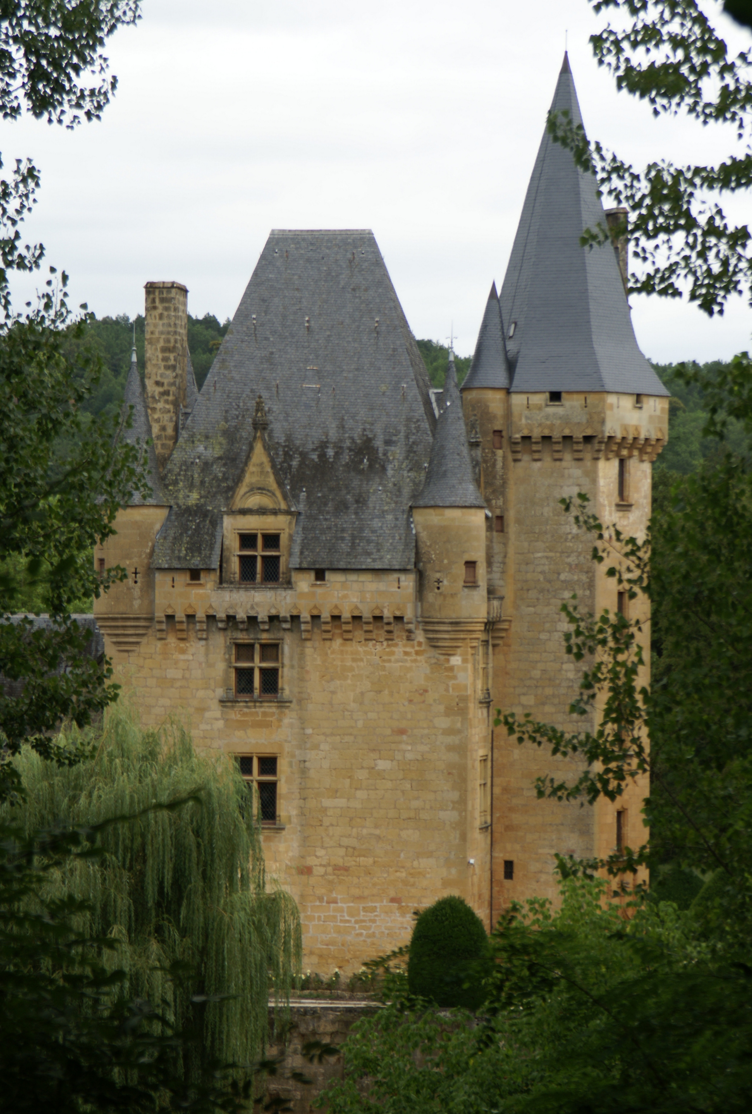 Castle at Saint-Léon-sur-Vézère, Dordogne, France